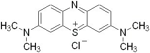 Structure of Methylene blue